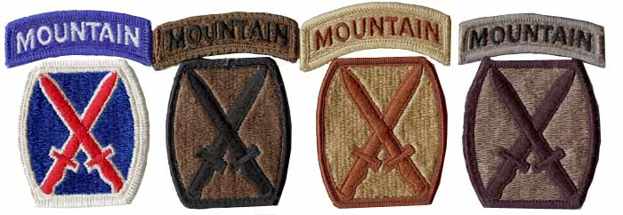 Photo of 10th Mountain Division Shoulder Sleeve Insignia(SSI) showing the 4 types of SSI: Full Color - Worn on the Army Green Uniform Subdued (Green/Black) - Worn on the Battle Dress Uniform (BDU) Desert Subdued (Tan/Brown) - Worn on the Desert Camouflage Uniform Subdued (Foliage Green/Gray) - Worn on the Army Combat Uniform (ACU)